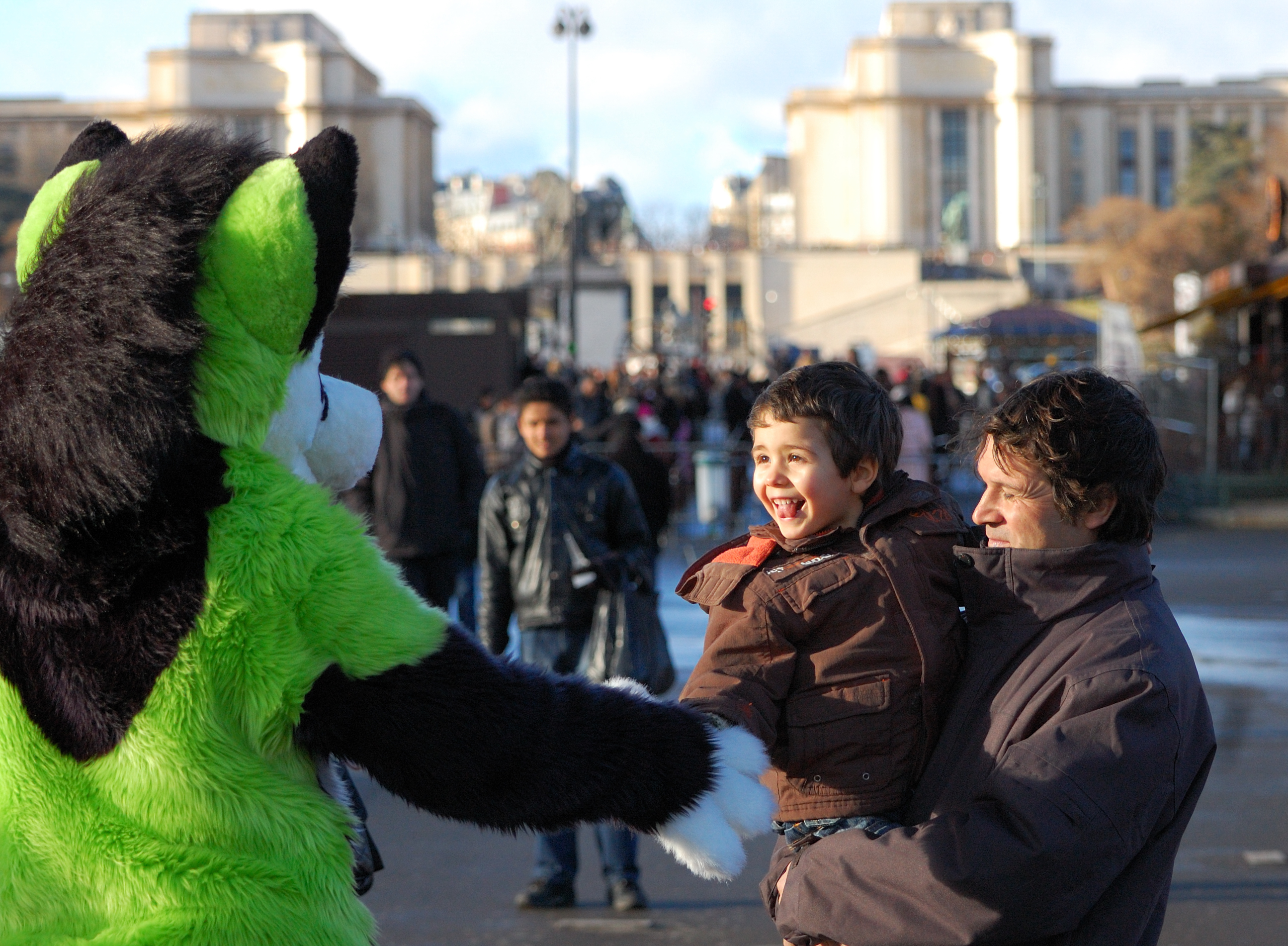 Natalie Ceviche Lima interacting with a child.